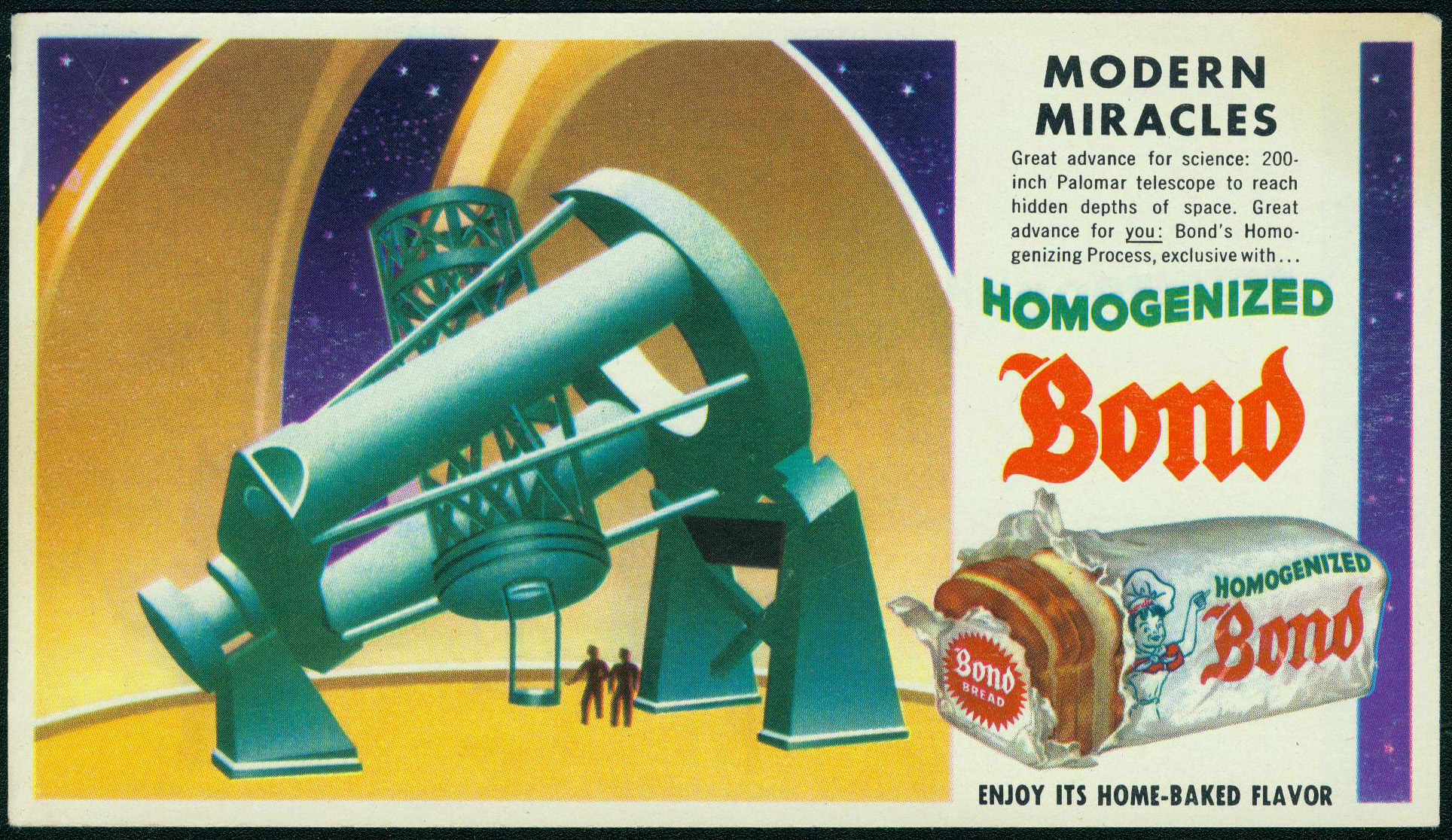 Bond Bread marketing material - Modern Miracles